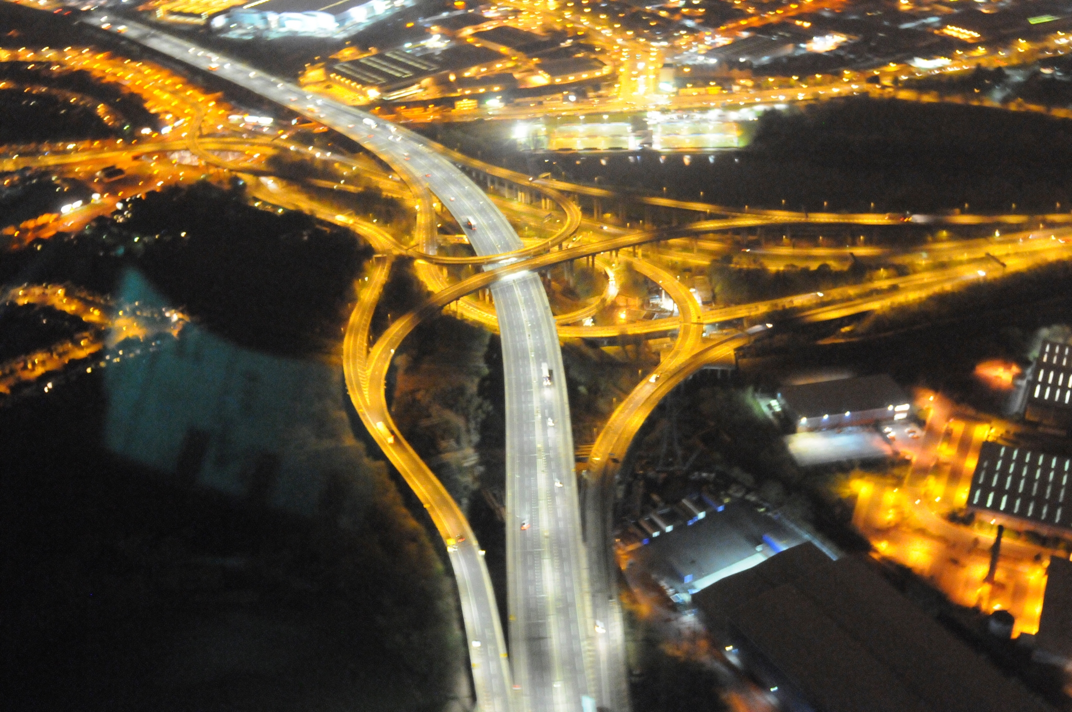 Gravelly Hill Interchange, aka 'Spaghetti Junction', from the air, at night. Taken by the West Midlands Police helicopter.